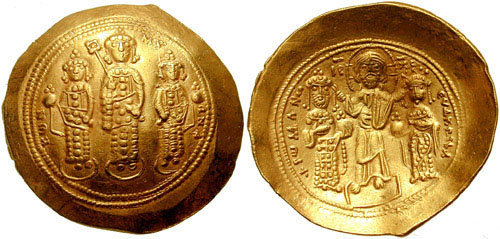 ROMANUS IV. 1067-1071 AD. AV Histamenon Nomisma (27mm, 4.32 gm). Constantinople mint. Michael standing facing, holding labarum and akakia, flanked by Constantius and Andronicus, each holding globus cruciger and akakia, standing on footstools / Christ standing facing on footstool, crowning Romanus and Eudocia, each wearing saccos and loros and holding globus cruciger; IC-XC flanking Christ's head. DOC III 1.9; SB 1859. EF.